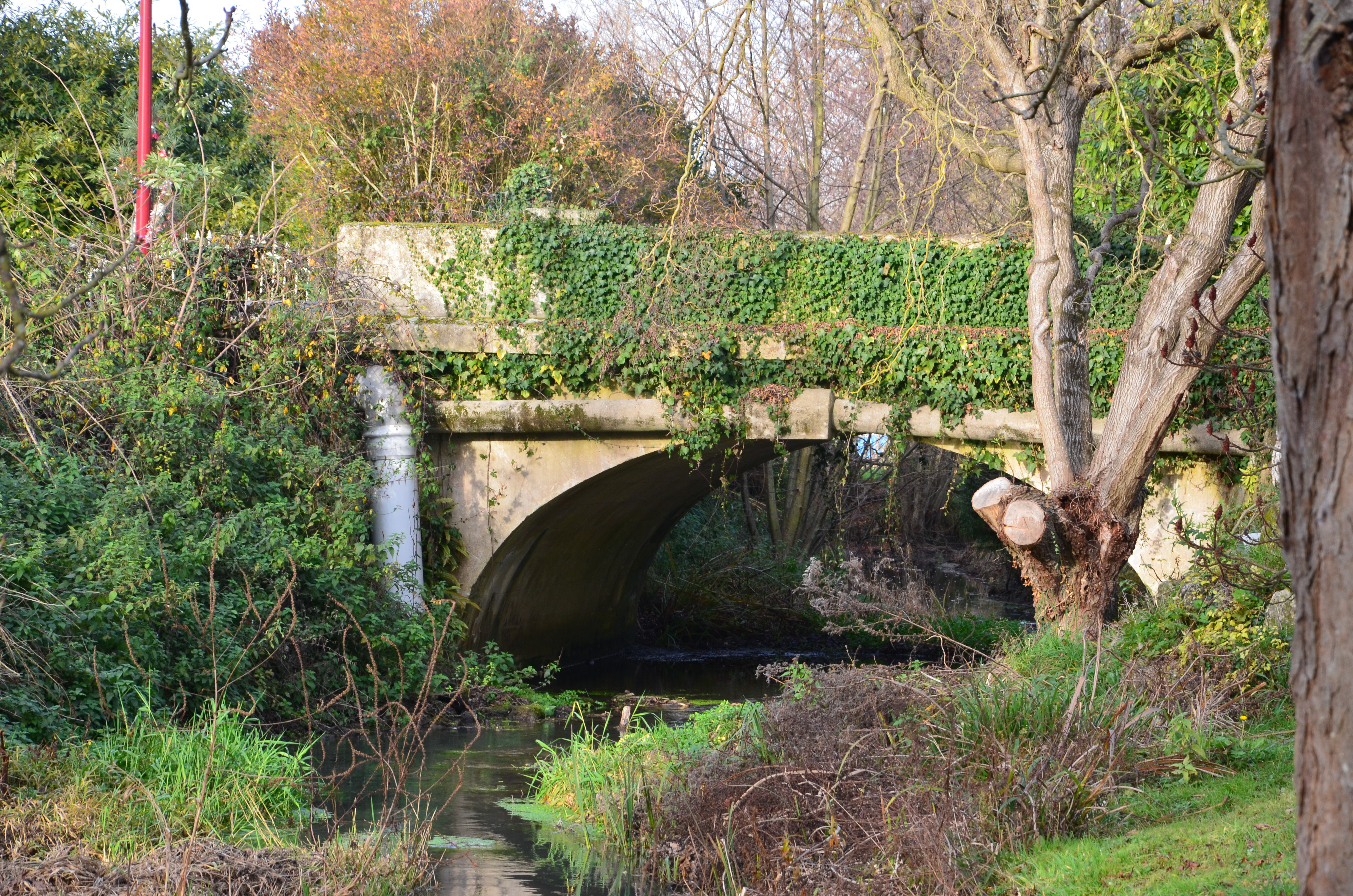 bridge